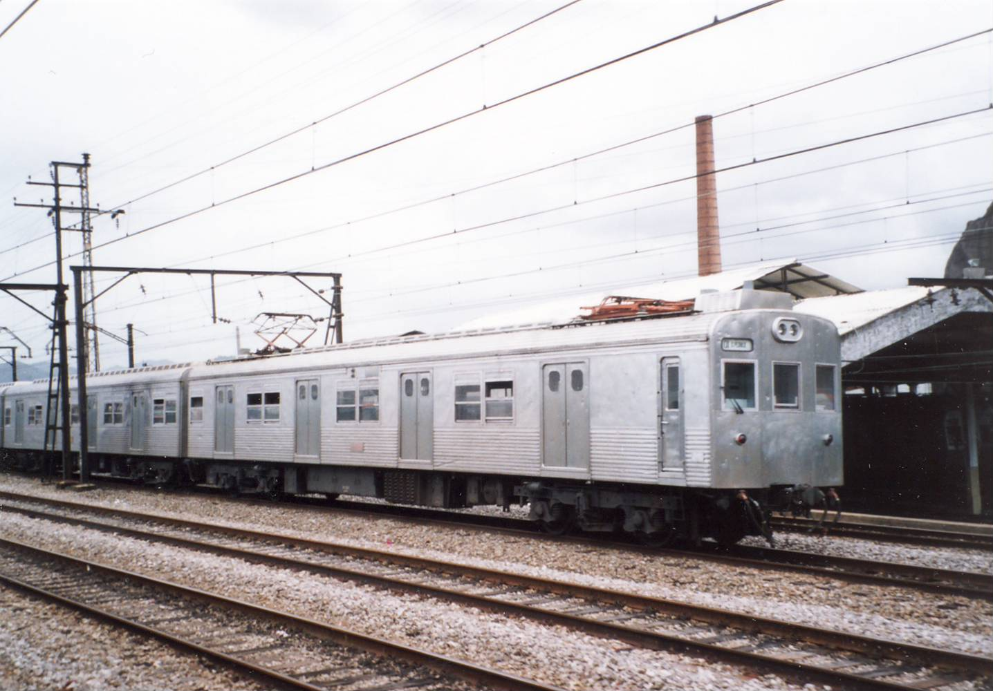 EMU Series 500 of Supervia as a suburban railway system in Rio de Janeiro, Brazil.